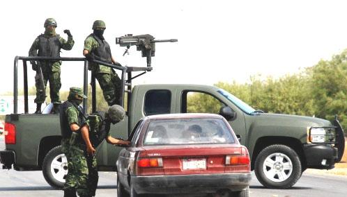 Mexican troops show off thier muscles and are armed with a Mark 19 40mm automatic grenade launcher operating a random checkpoint in March 2009.